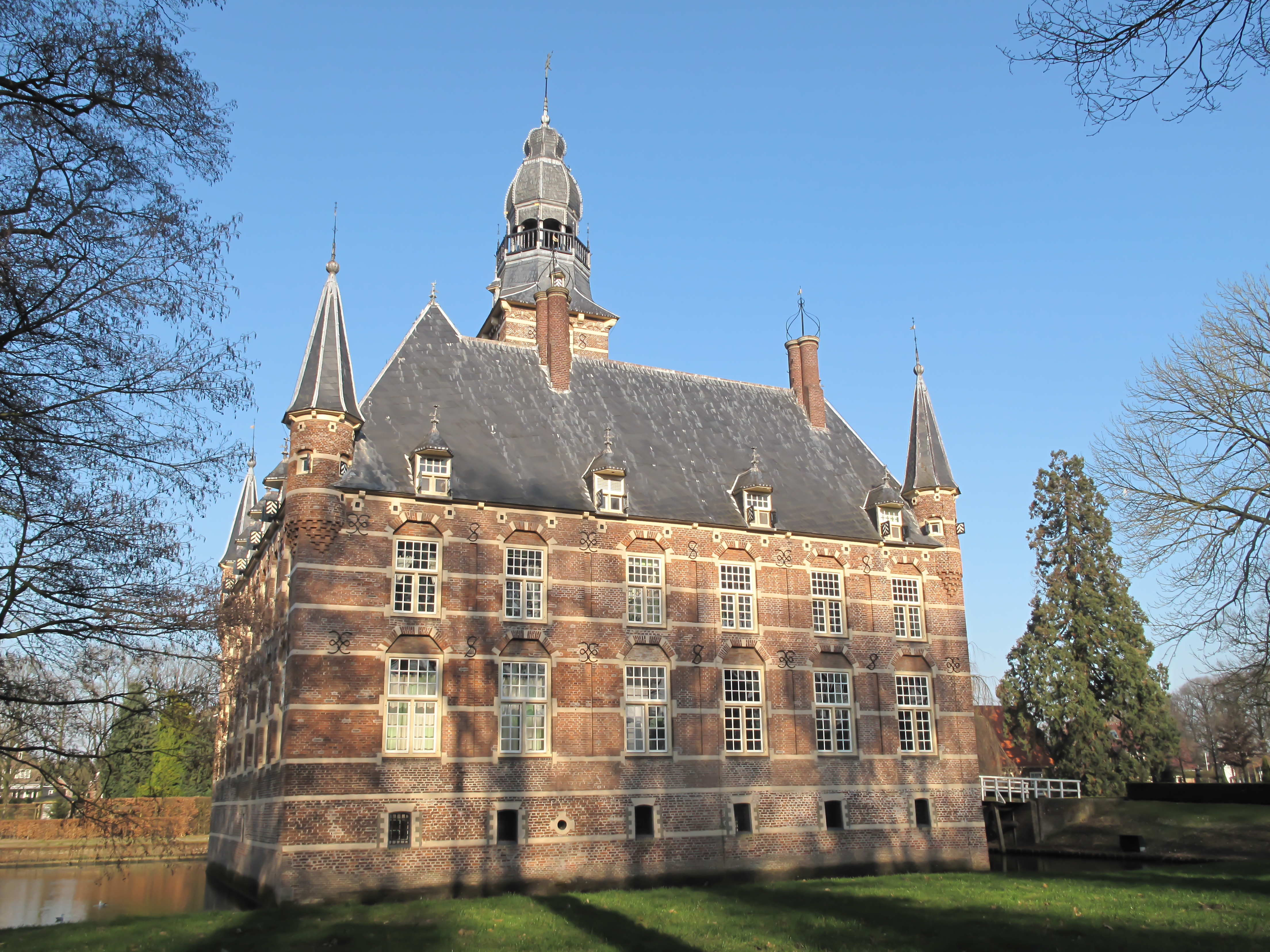 Wijchen, castle: kasteel Wijchen